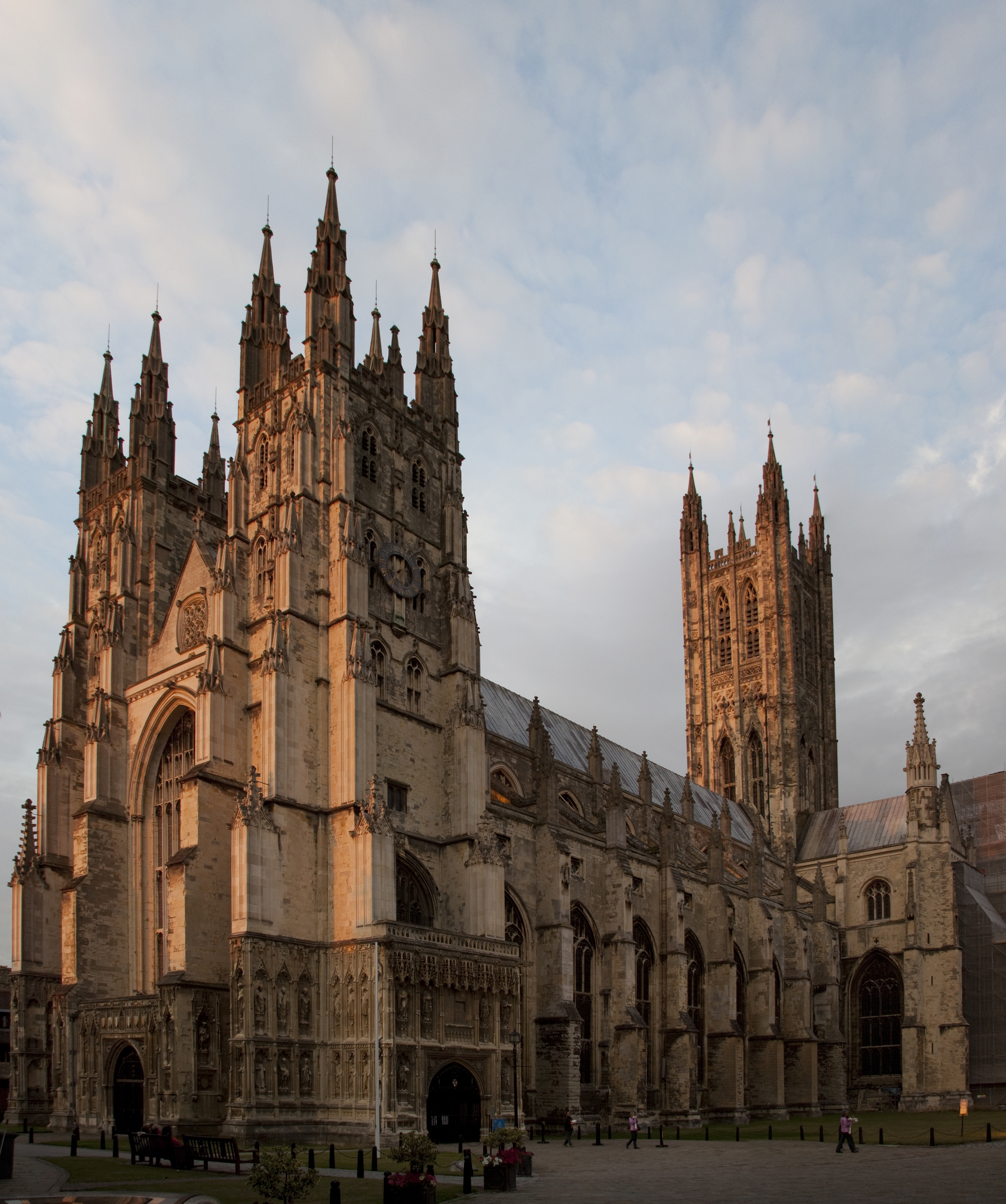 Canterbury Cathedral evening